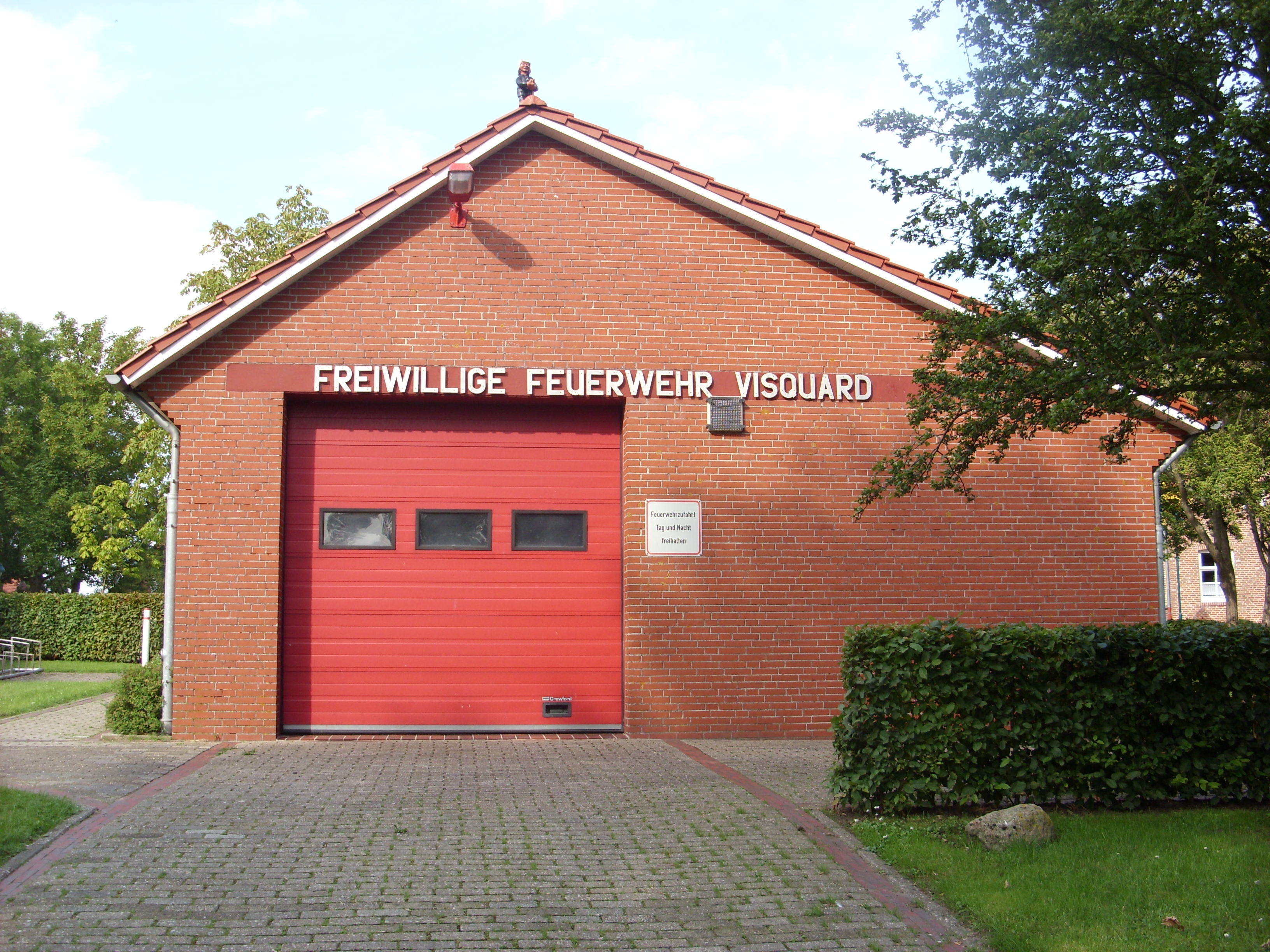 The auxiliary fire brigade of Visquard